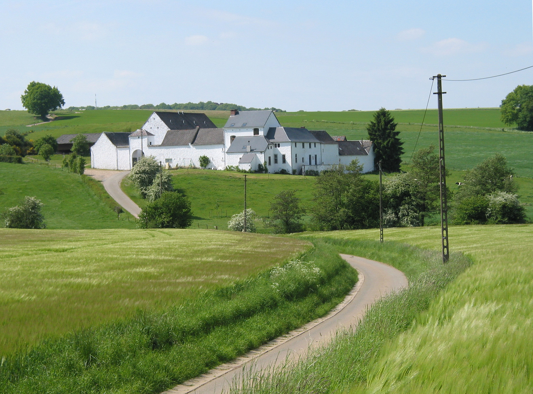 Mozet (Belgium), the Basseille farm (XVIIIth century).